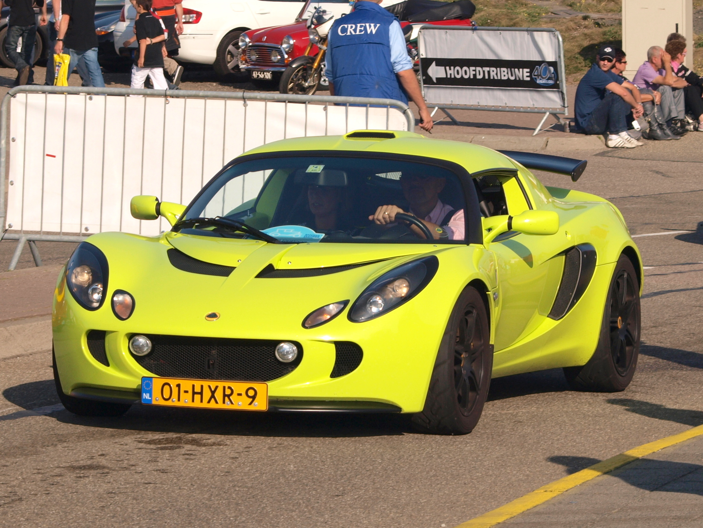 Photographed at the Nationaal Oldtimer Festival Zandvoort 2009, The Netherlands. OLYMPUS DIGITAL CAMERA